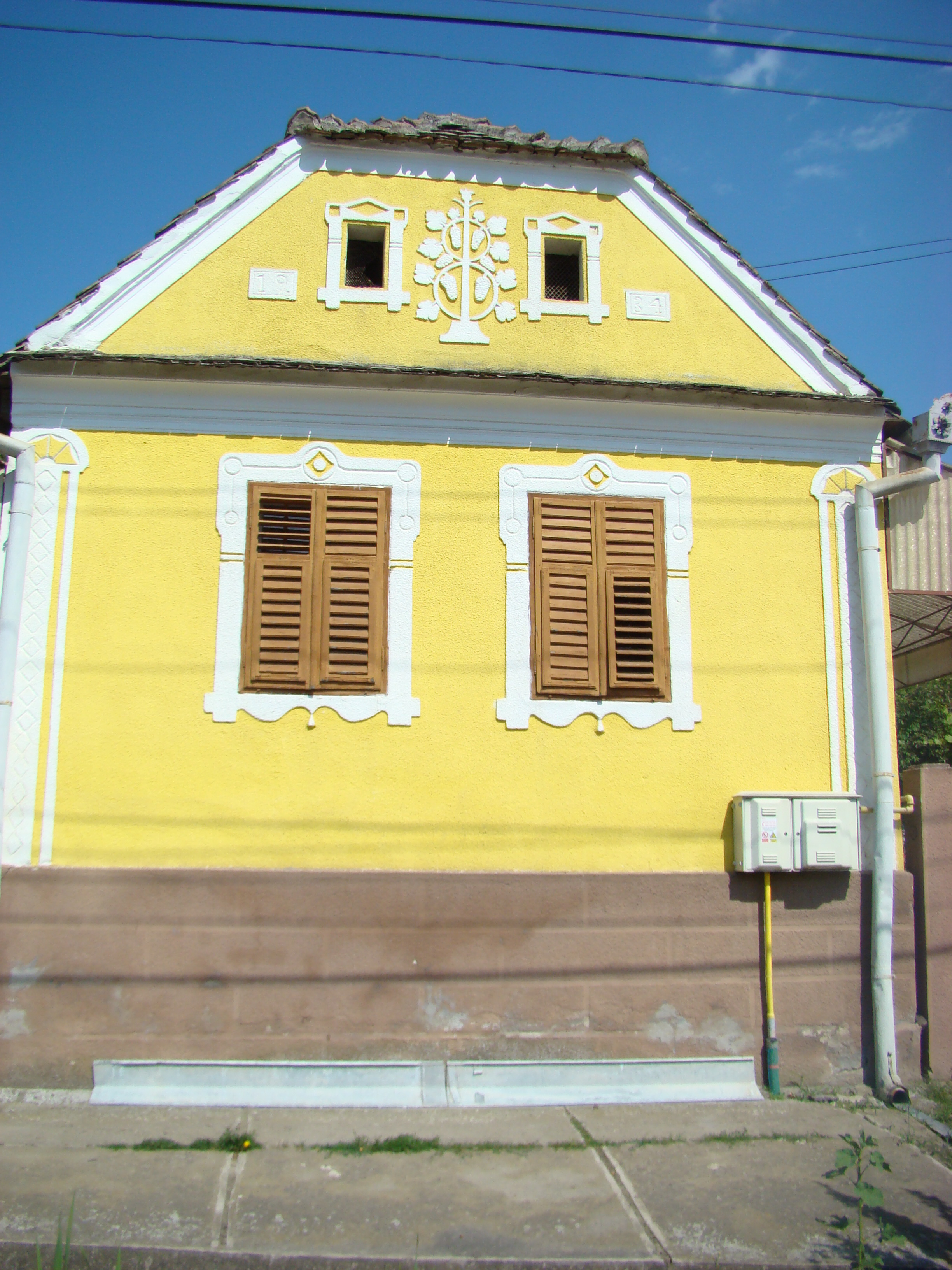 Șmig, Sibiu county, Romania